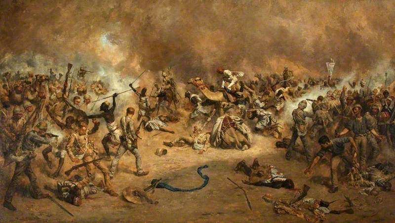 The battle of Tofrek . Oil on Canvas. The Rifles Berkshire and Wilshire Museum.